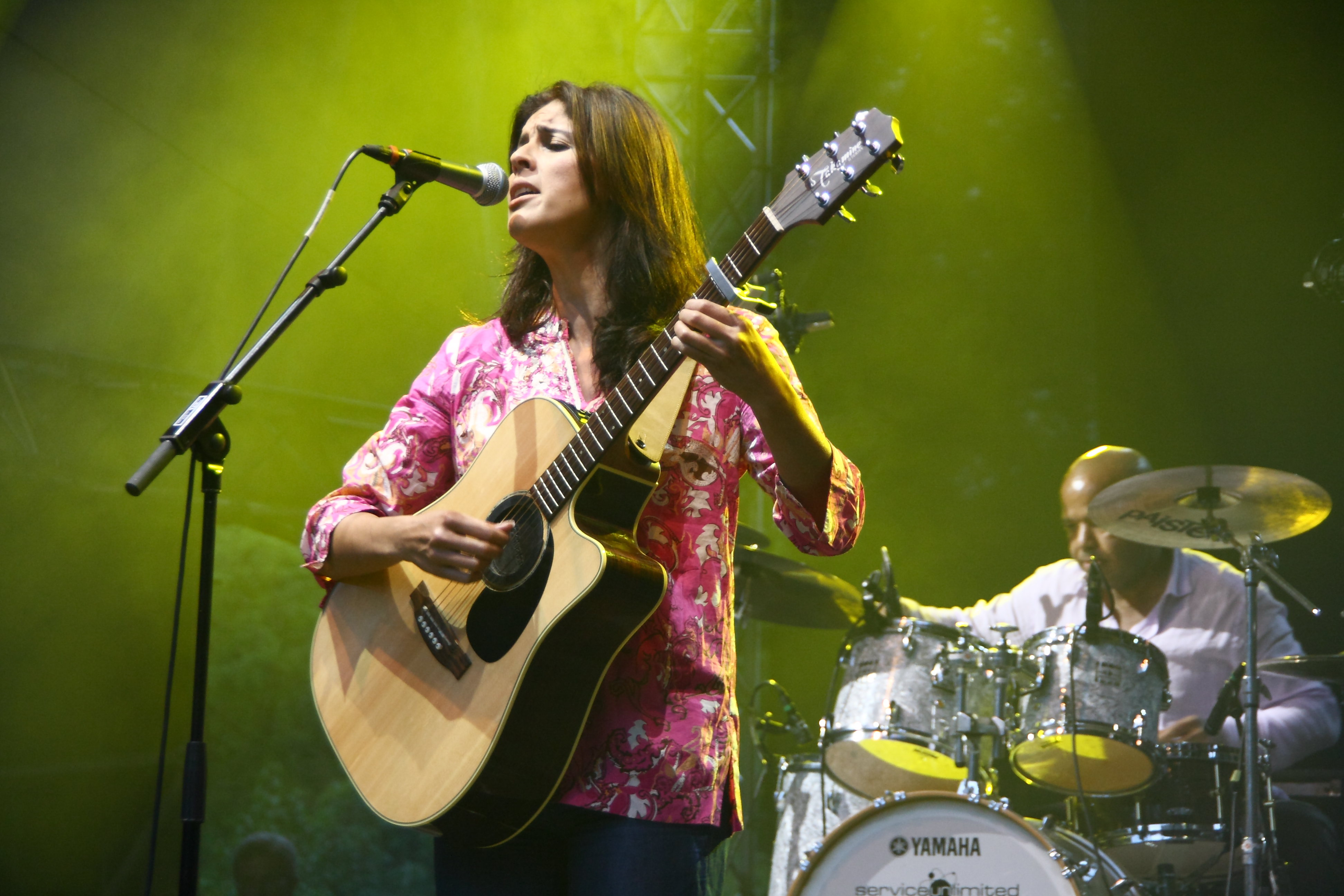 Souad Mass and her Band at TFF Rudolstadt 2013.